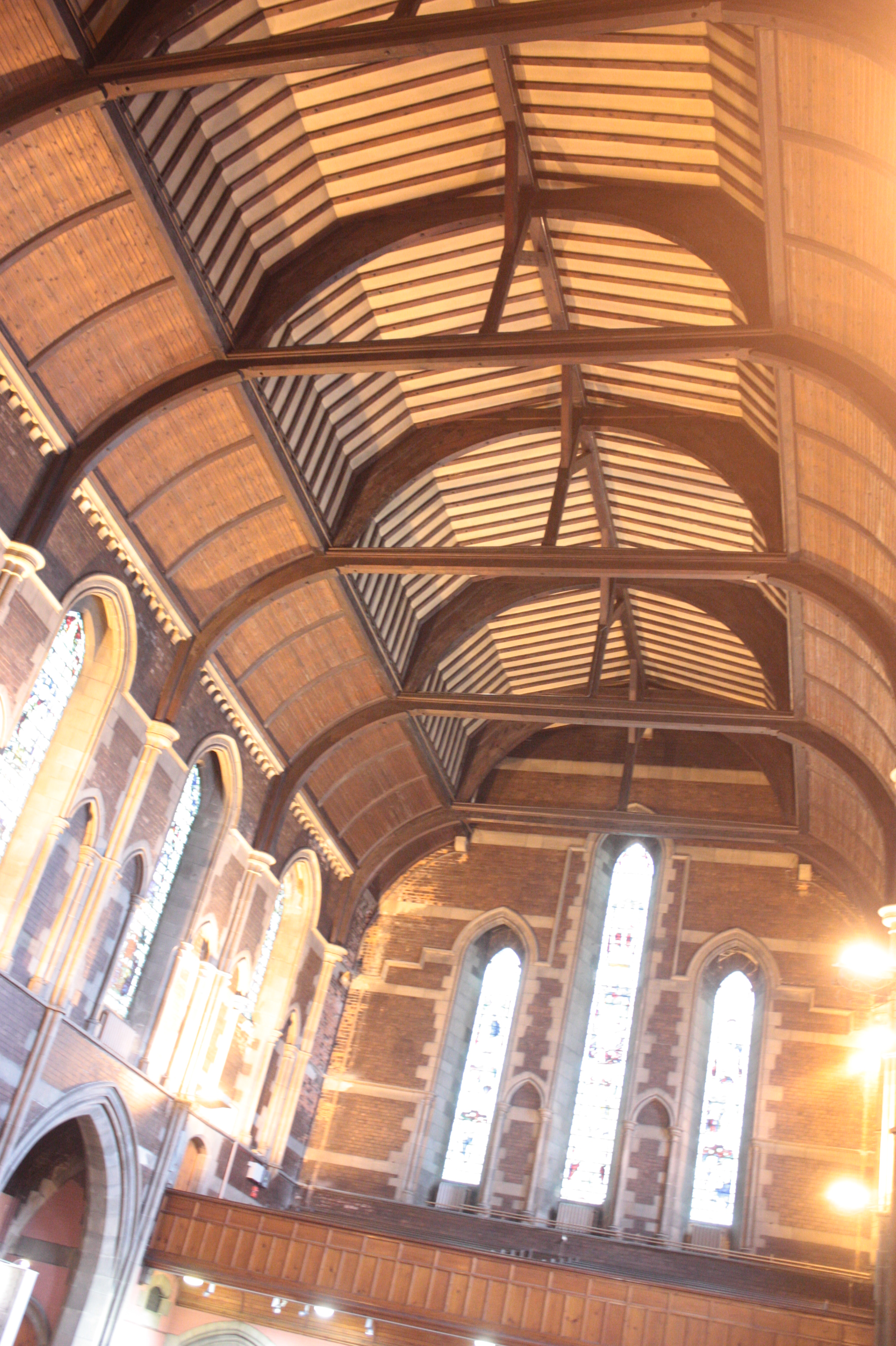 The ceiling of Old Govan Parish Church